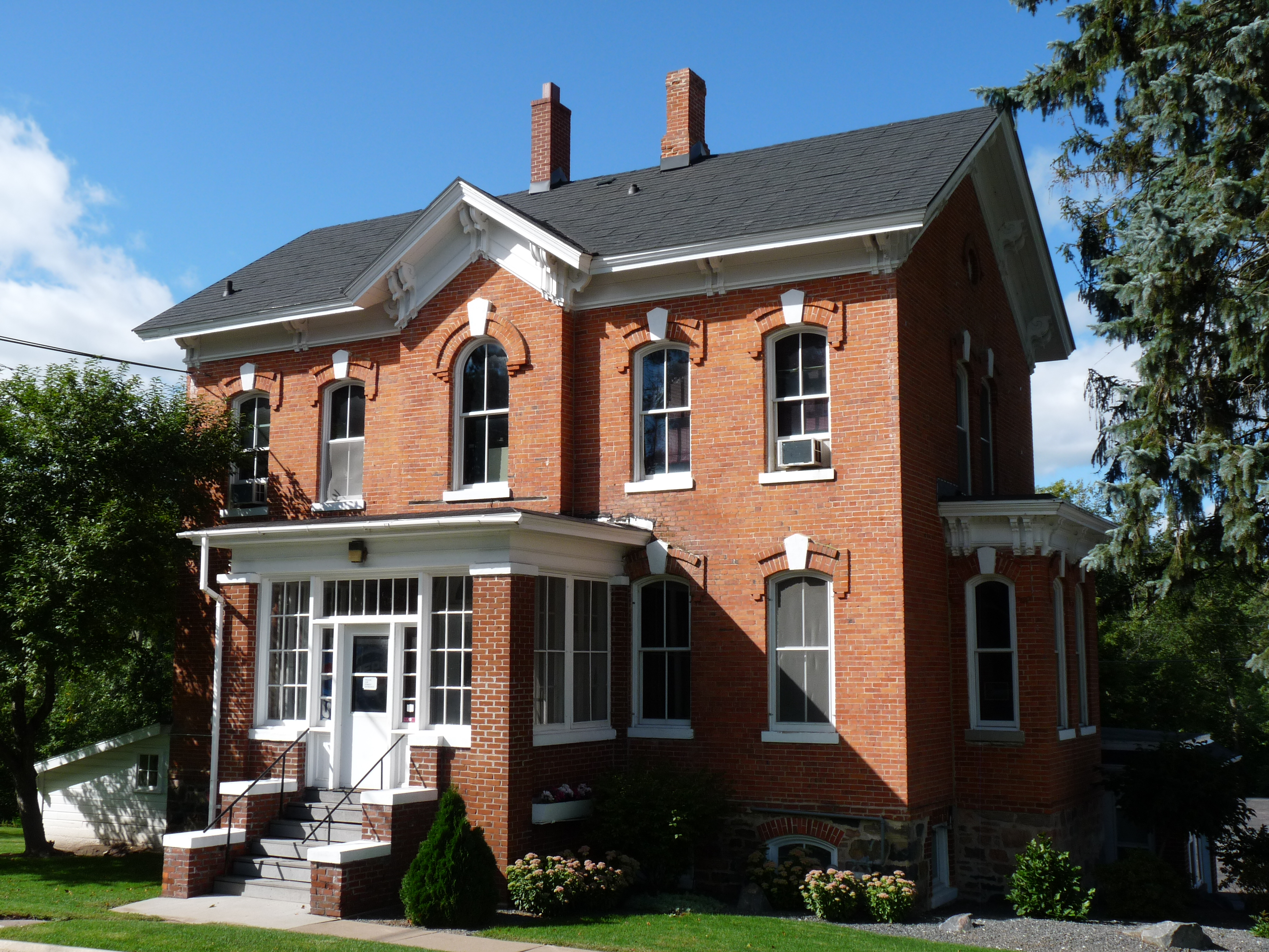 The Fricke-Menzner House is the only Italianate house left in Marathon City, Wisconsin. It was built in 1875 by Henry Fricke, a sawmill developer, and later home to Philip Menzner and his family. It is now an office of Menzner Hardwoods and is on the National Register of Historic Places.